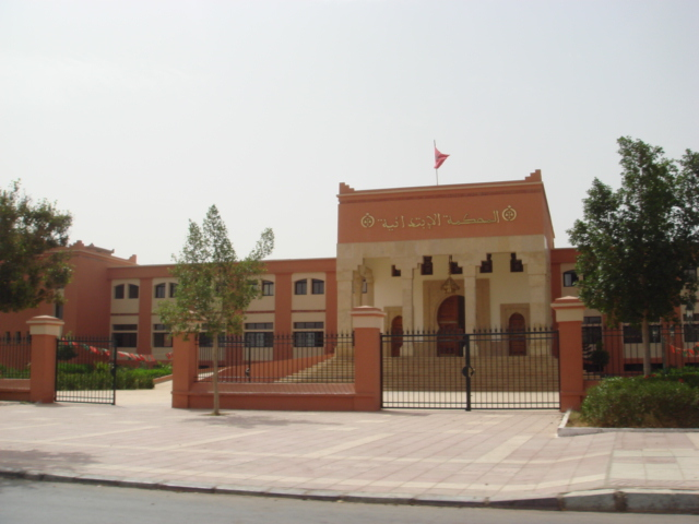 Morrocco Morocco marroko marokko guelmim goulmim goulmime goulmine guelmin guelmine sahara south justice arab town